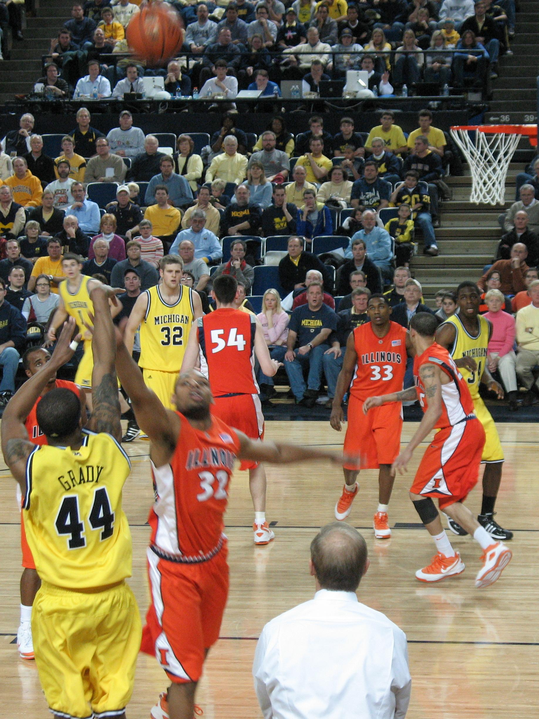 Kelvin Grady shoots a jump shot for the Michigan Wolverines men's basketball team in a game against the Illinois Fighting Illini men's basketball team as head coach John Beilein looks on.